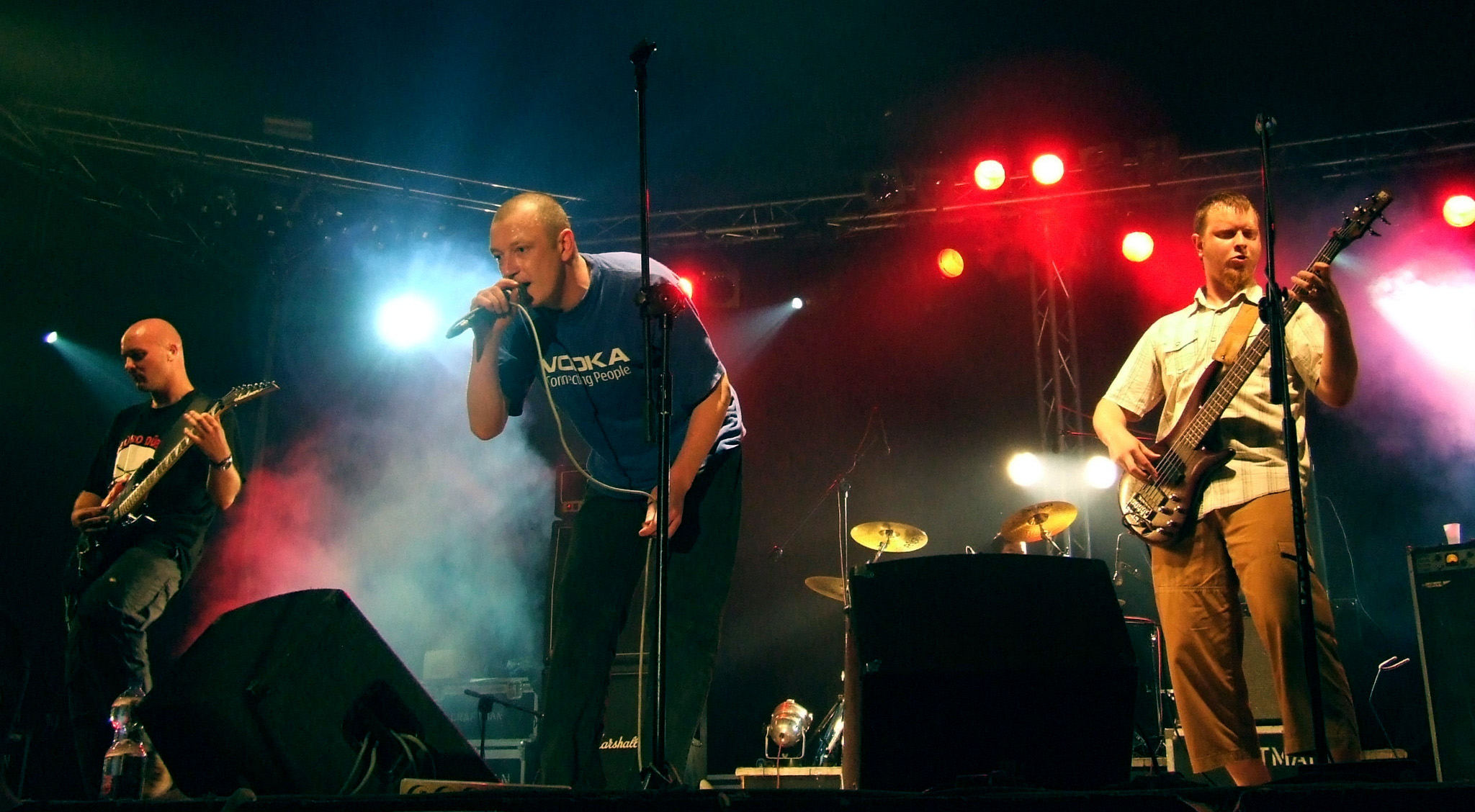 Belarusian group Neuro Dubel at Basowiszcza 2007 festival.